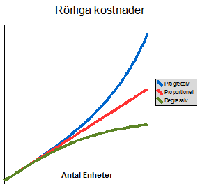 Variable costs in swedish